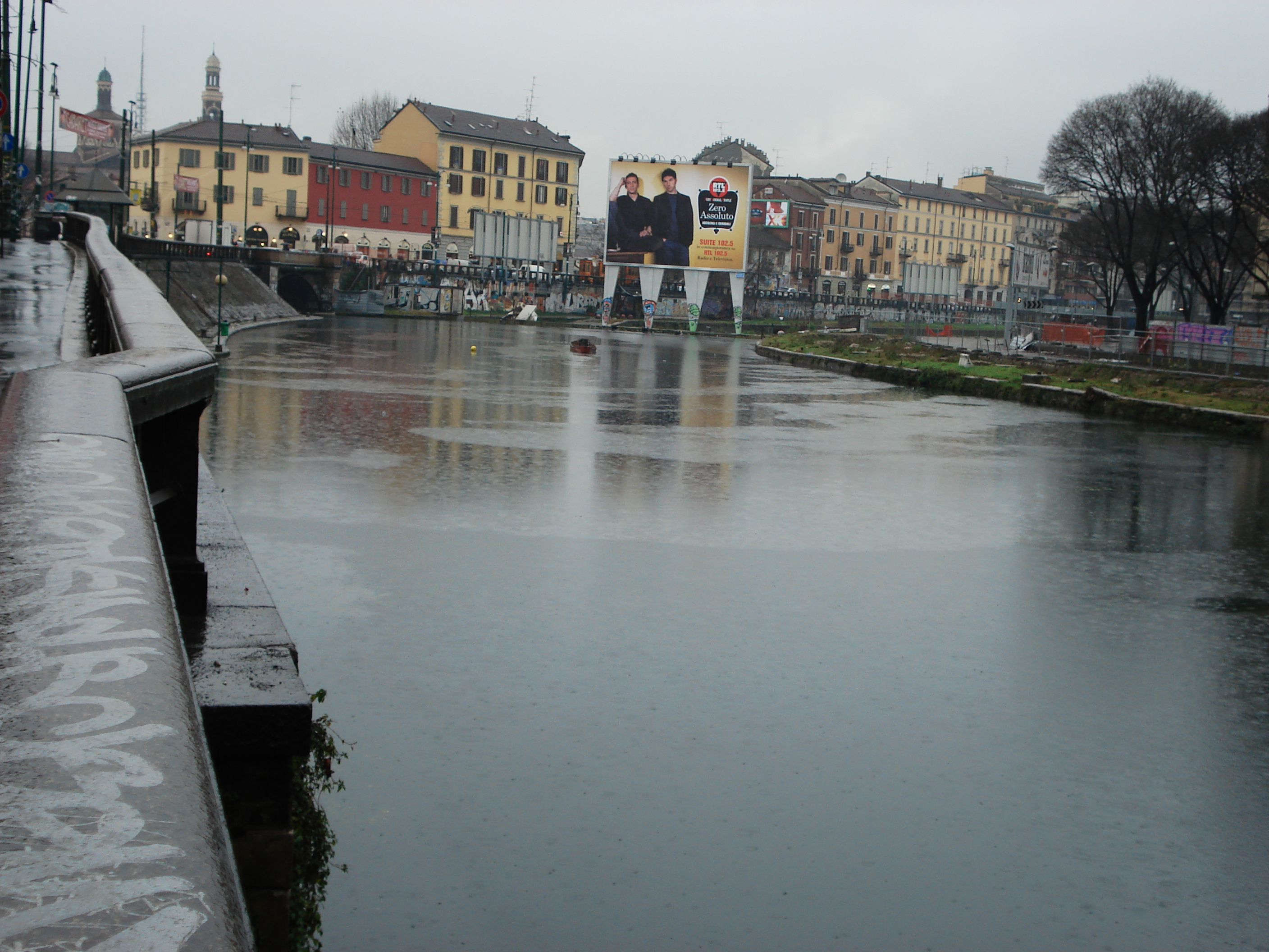 The Dàrsena, formerly Milan's harbour.